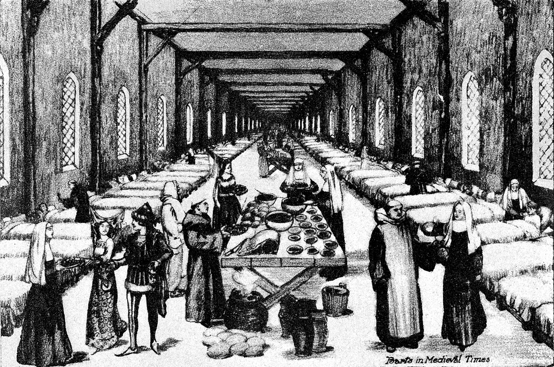 St. Bartholomew's Hospital, Mediaeval Period. Wellcome Images Keywords: Institutions